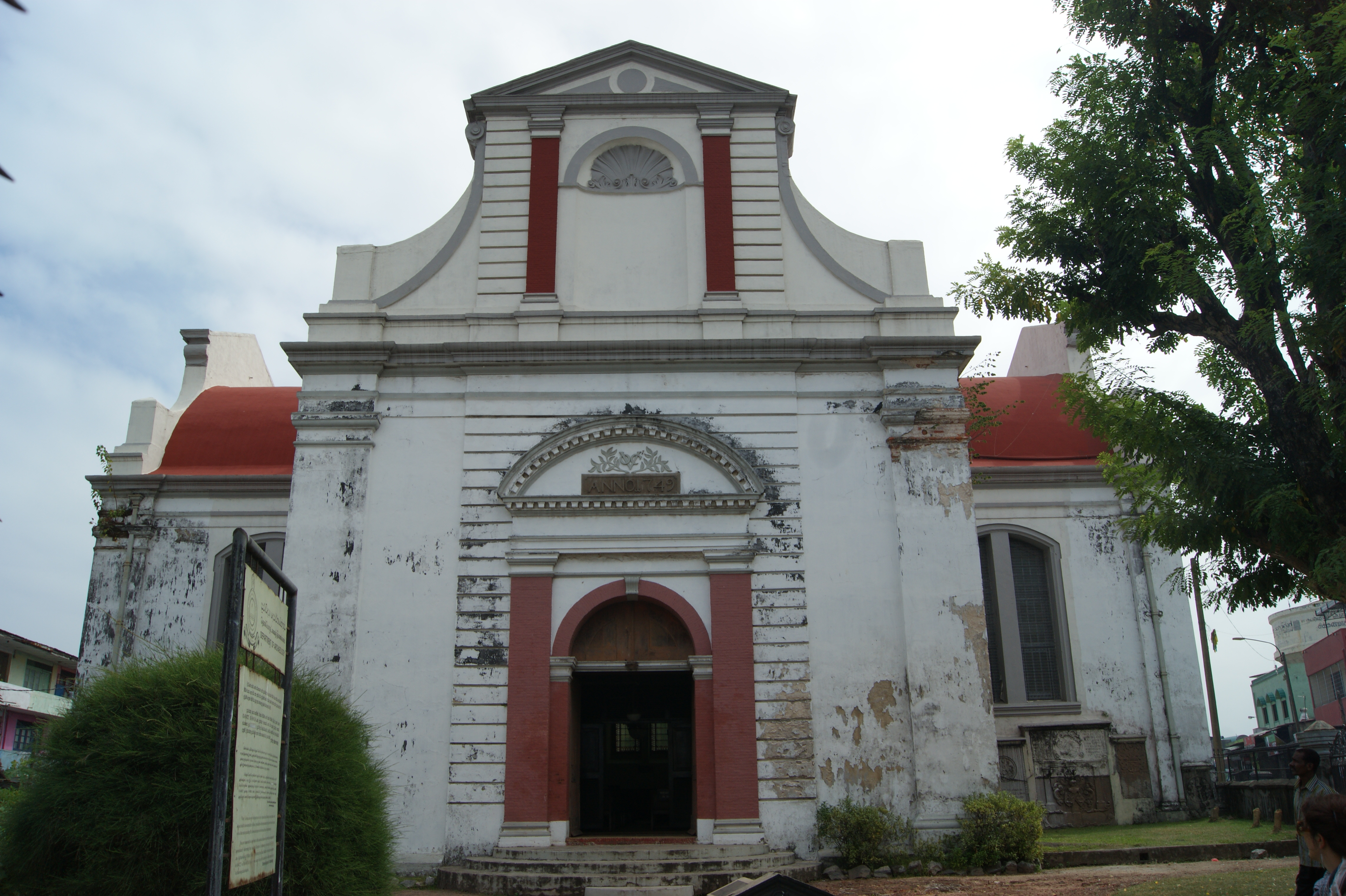 Main entrance at Wolvendaal Church, Colombo